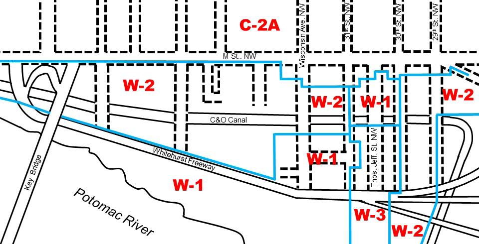 Simplified map of the waterfront in the Georgetown neighborhood of Washington, D.C., in the United States. The map shows the zoning sub-zones approved by the D.C. Zoning Commission in November 1974, and upheld by the D.C. Court of Appeals in Citizens Association of Georgetown v. Zoning Commission of the District of Columbia, 392 A.2d 1027 (D.C. App., 1978) on October 17, 1978. Legend: W-1 area: Buildings are permitted to be six stories in height. W-3 area: Buildings are permitted to be nine stories in height. W-2 area: Buildings are permitted to be six-stories in height, but may rise to nine stories for mixed-use developments. All W areas: The square footage of a single building is restricted, but this limit may be exceeded if the structure includes more residential units than required by law and regulation. Map based on information in: Scharfenberg, Kirk. "Zoning Change Sought." Washington Post. June 30, 1973; "Waterfront Zoning Decision Delayed." Washington Post. November 16, 1974.